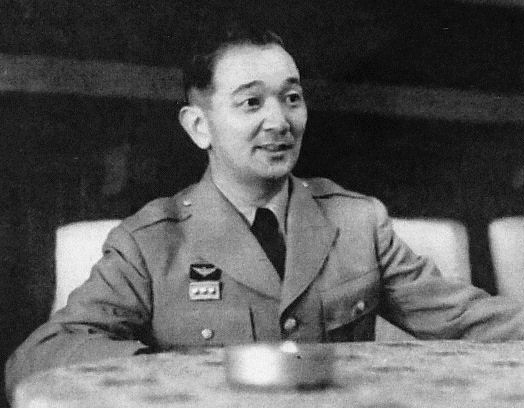 General Keizo Hayashi, Chairman of the JSDF Joint Staff Council.